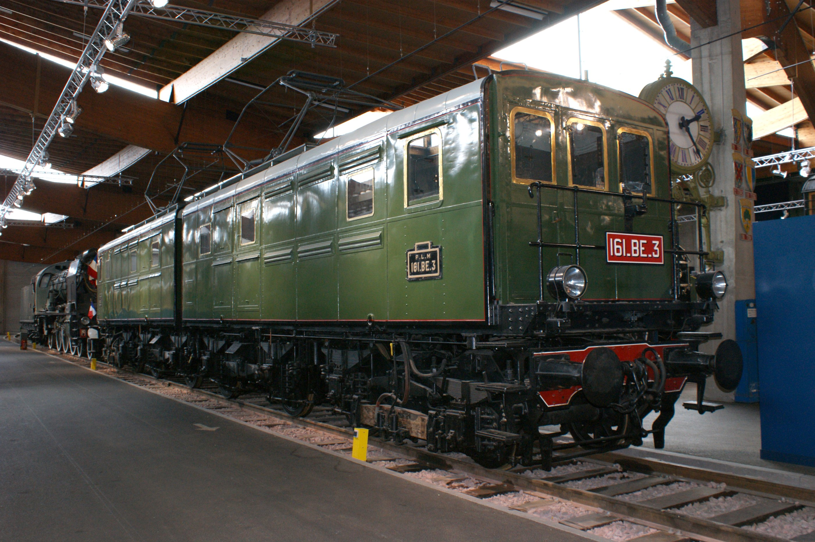 PLM BTH/Schneider/Jeumont 1,600V dc 2-Co+Co-2 .3 at the French Railway Museum, Mulhouse, 3/09.